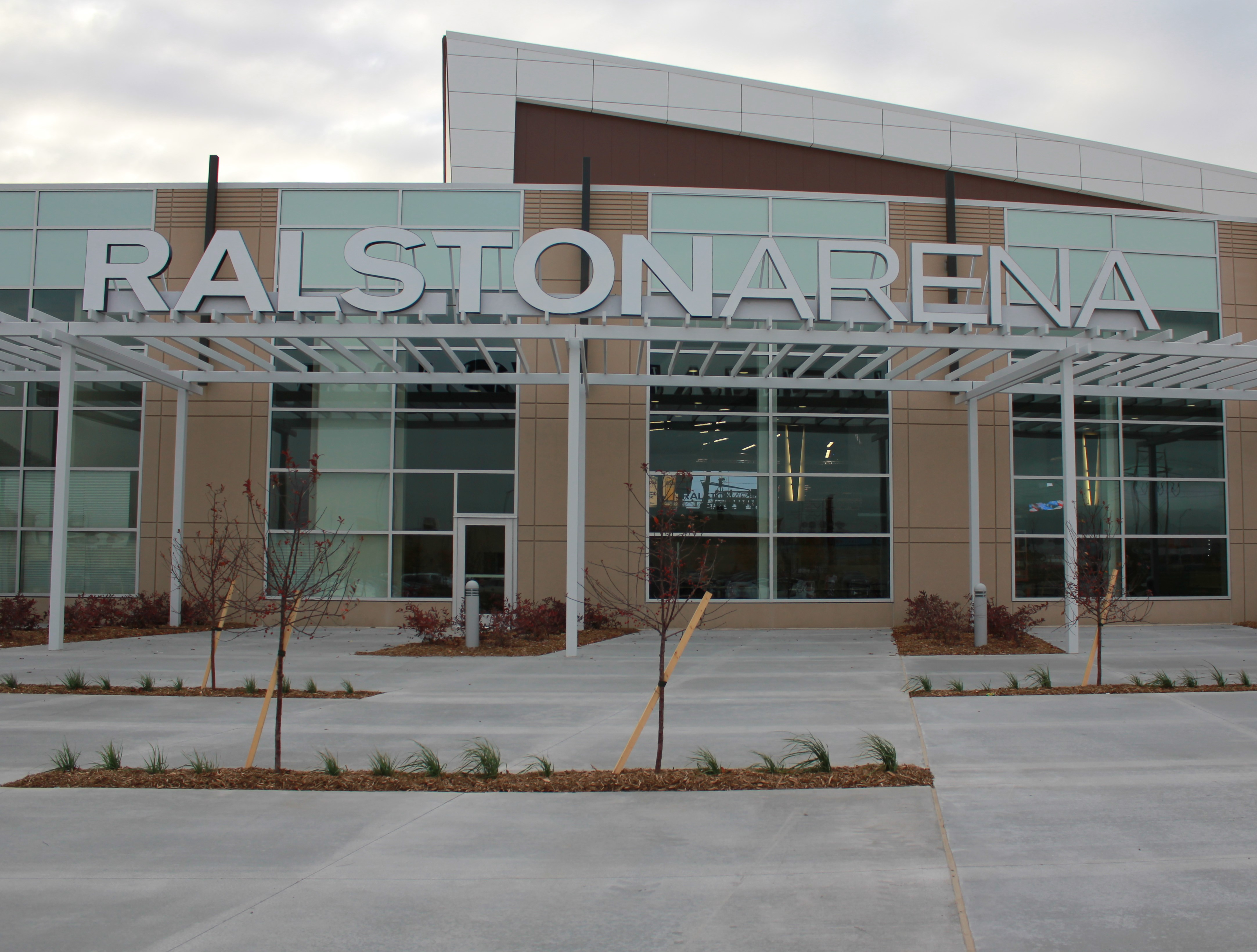 Main Entrance